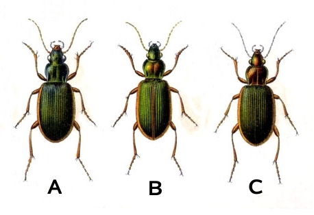 3 species of Chlaenius A.Chlaenius velutinus B.Chlaenius spoliatus C.Chlaenius festivus Derivate of Edmund Reitter Fauna Germanica Bad I 1908